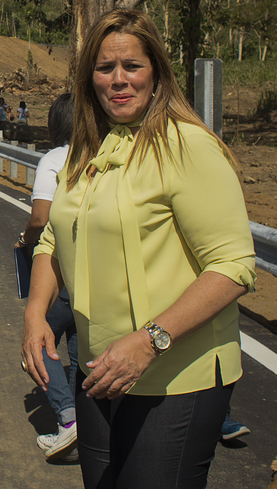 Canóvanas, Puerto Rico, April 20, 2018 - Governor of Puerto Rico, Ricardo Roselló along with the Mayor of Canóvanas, Lornna Soto, celebrate the opening of the new bridge in the Cambalache Community. Thanks to the effort of the Puerto Rico Government, FEMA and other Federal Partners, the community can go back to normal after the previous bridge collapsed due to Hurricane María. FEMA/Eduardo Martínez